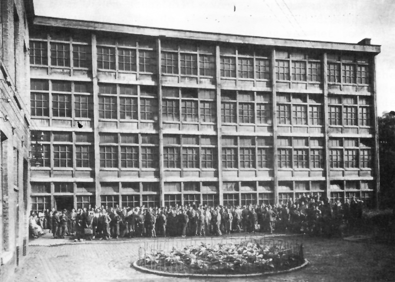 PITO, technical school Tienen